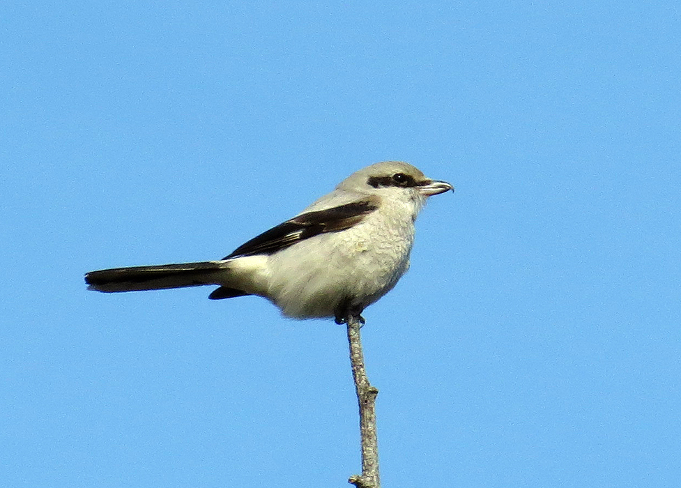 Northern Shrike Lanius excubitor borealis, Elwha River Mouth, West of Port Angeles, Clallam Co., Washington